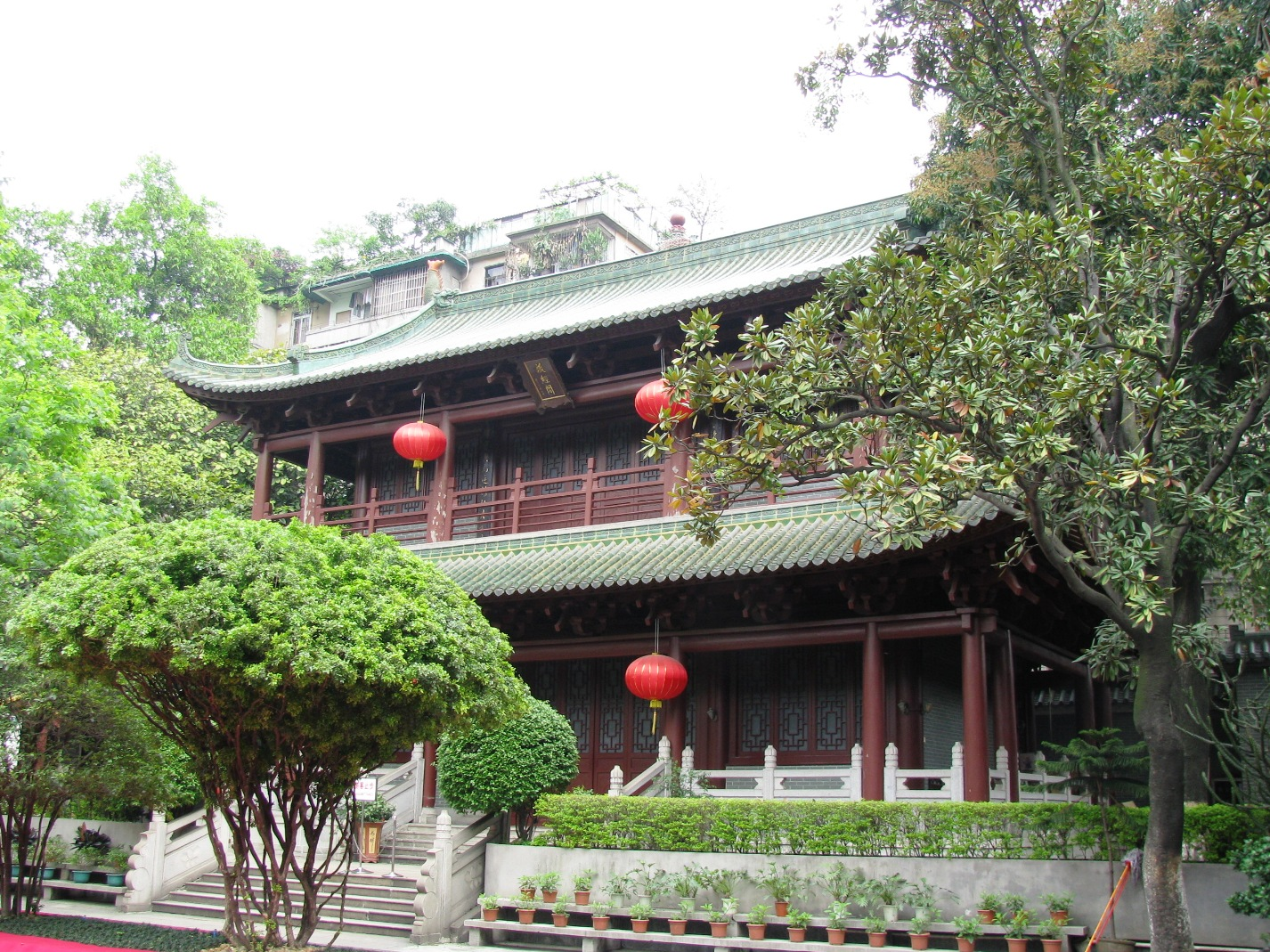 The Buddhist Texts Library at the Temple of the Six Banyan Trees in Guangzhou, Guangdong, China.